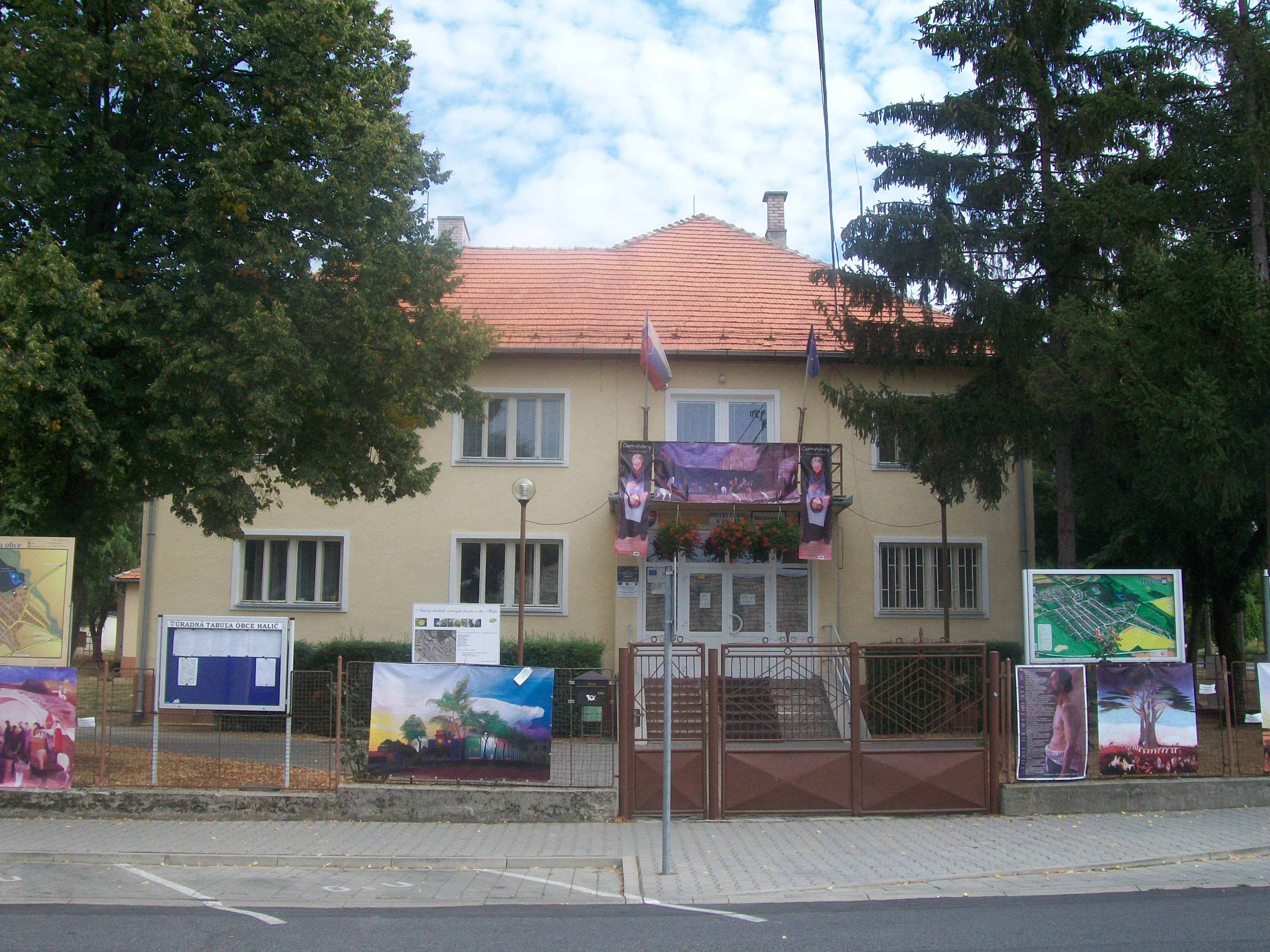 Municipal office in HaličSlovenčina: Obecný úrad v Haliči